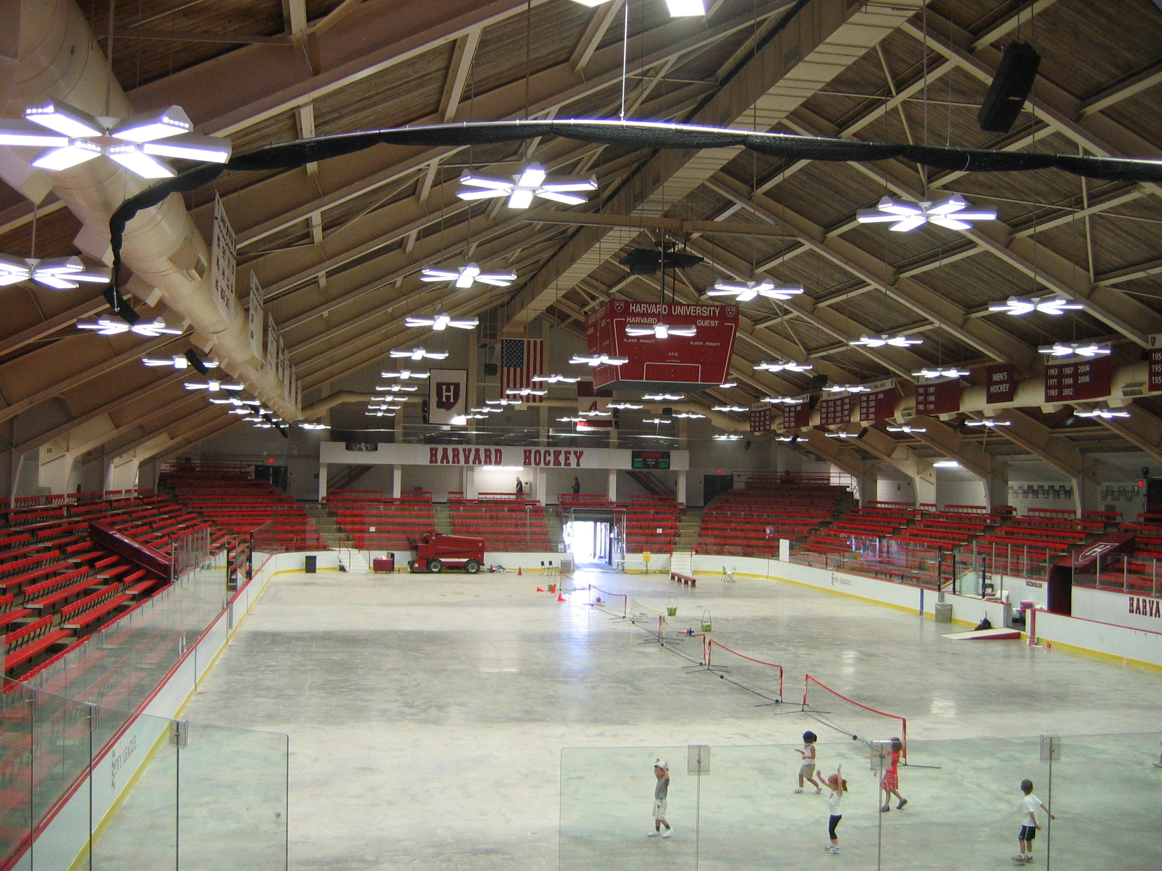 Football & Basketball Facilities Harvard Hockey Rink